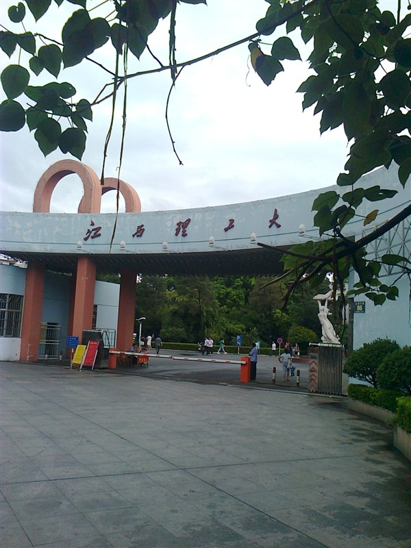 gate of jiangxi university of science and technology